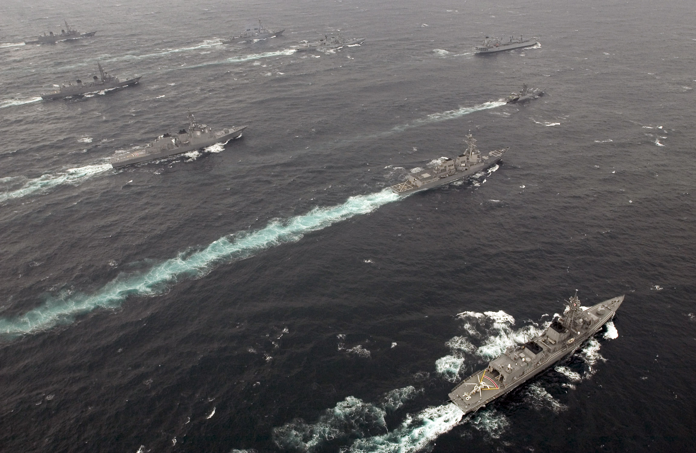 TOKYO BAY (April 16, 2007) - Japanese destroyer JS Murasame (DD 101), Japanese destroyer JS Kirishima (DD 174), Japanese destroyer JS Takanami (DD 110), guided missile destroyer USS John S. McCain (DDG 56), Indian navy destroyer INS Mysore (D 60), guided missile destroyer USS Mustin (DDG 89), Japanese destroyer JS Ikazuchi (DD 107), Indian navy patrol craft INS Kuthar (P 46) and Indian navy auxiliary ship INS Jyoti (A 58) operate in formation in Tokyo Bay for Trilateralex. U.S. Navy photo by Mass Communication Specialist John L. Beeman (RELEASED)